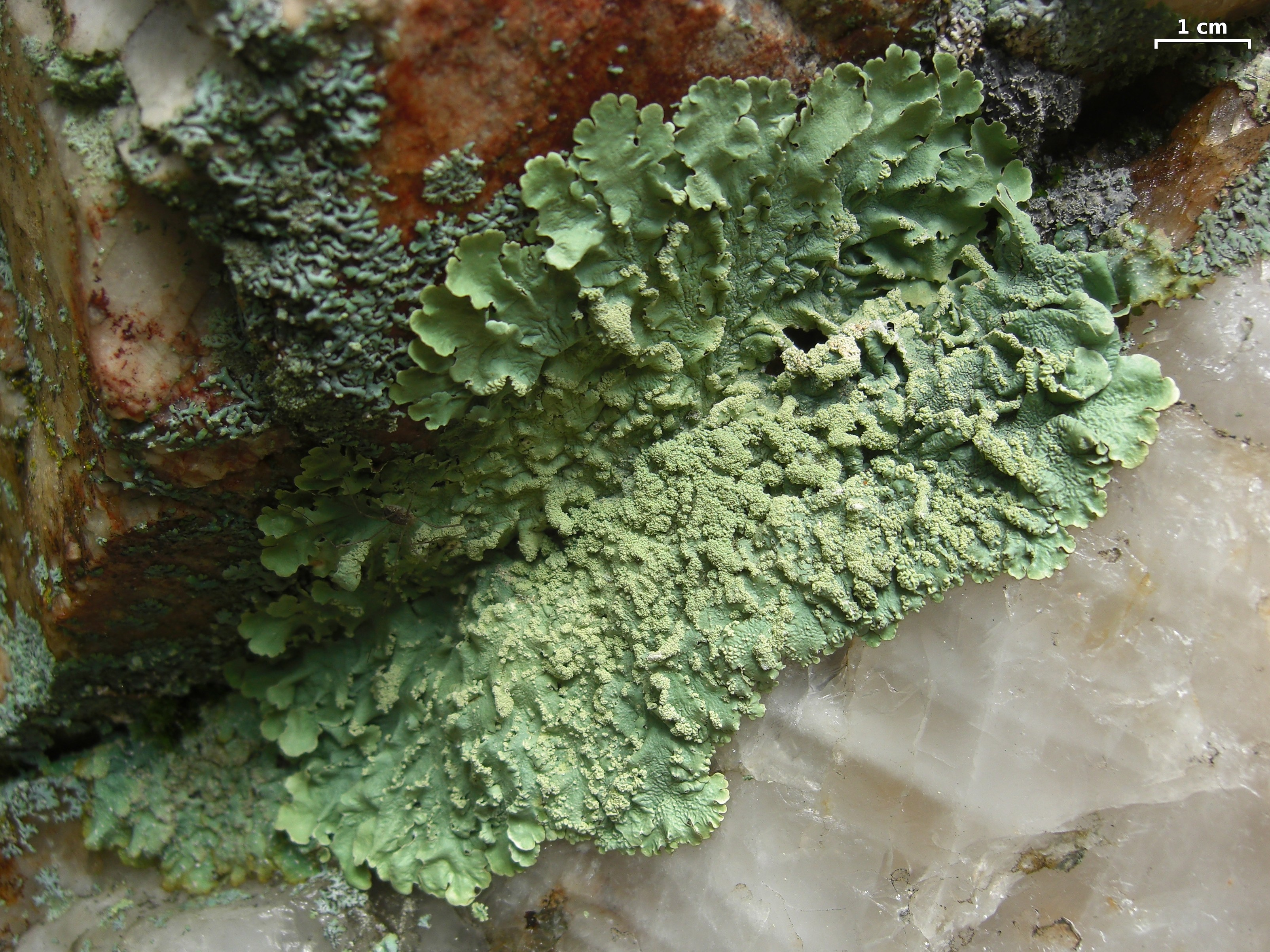 Lost Cabin Trail, Black Hills, South Dakota, 20110707